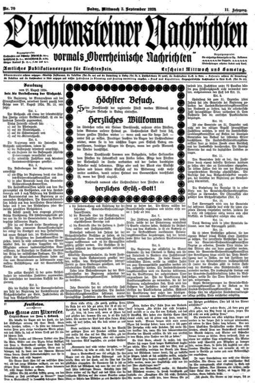 Photo of the title page of the first edition of the "Liechtensteiner Nachrichten" from September 03, 1924